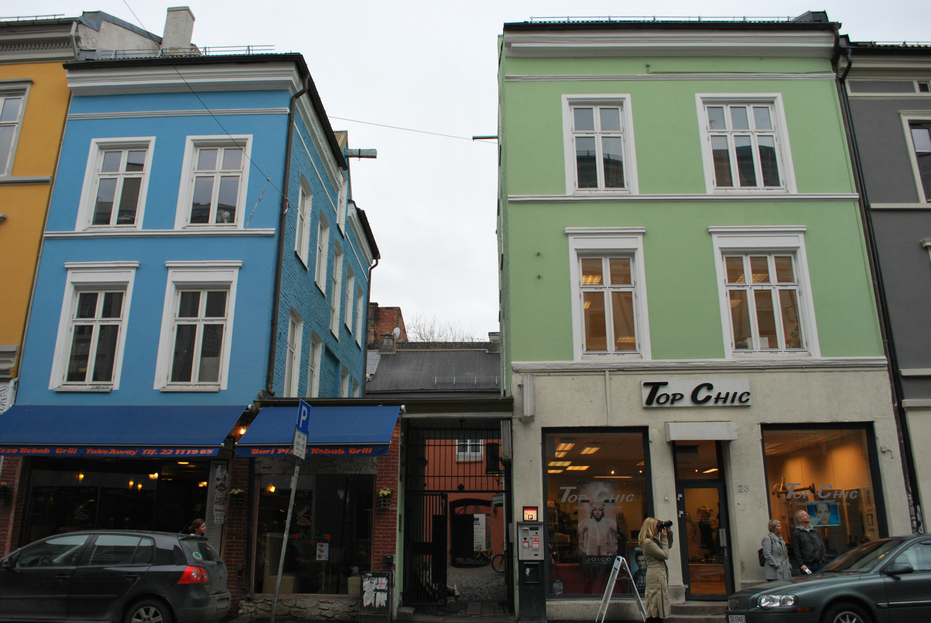 Torggata 23, Oslo, 1884